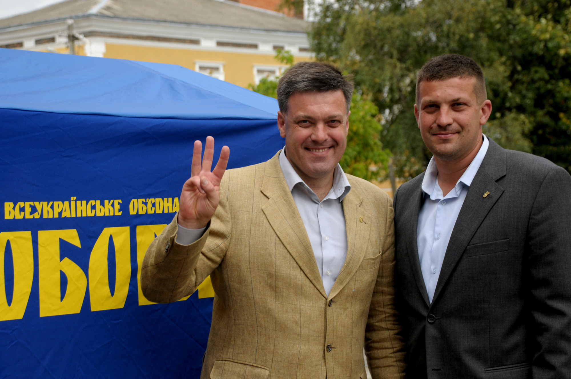 Brothers Oleh and Andriy Tiahybok, Ukrainian politicians